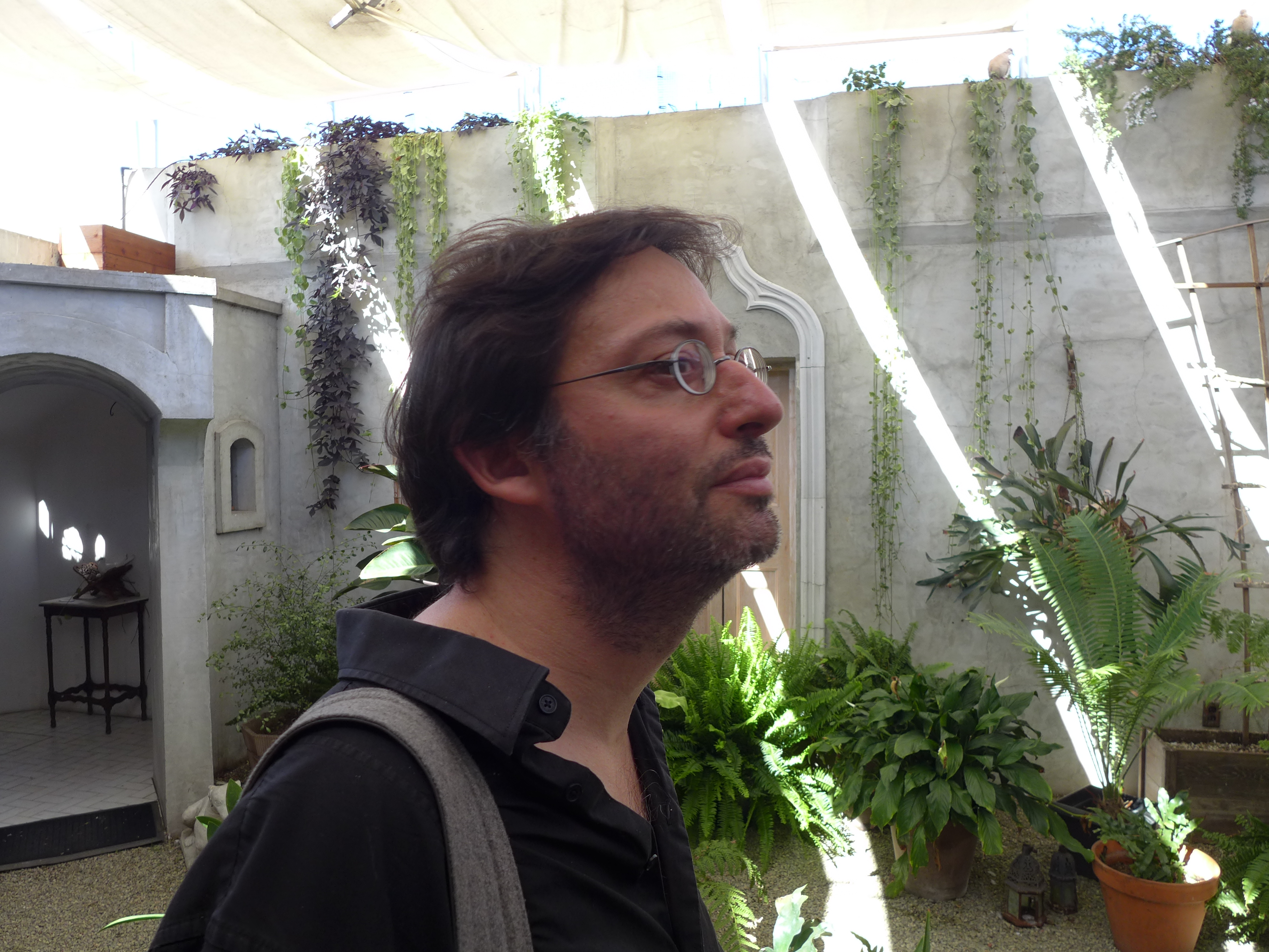 Oscar Strasnoy at the Museum of Jurassic Technology, Los Angeles, California